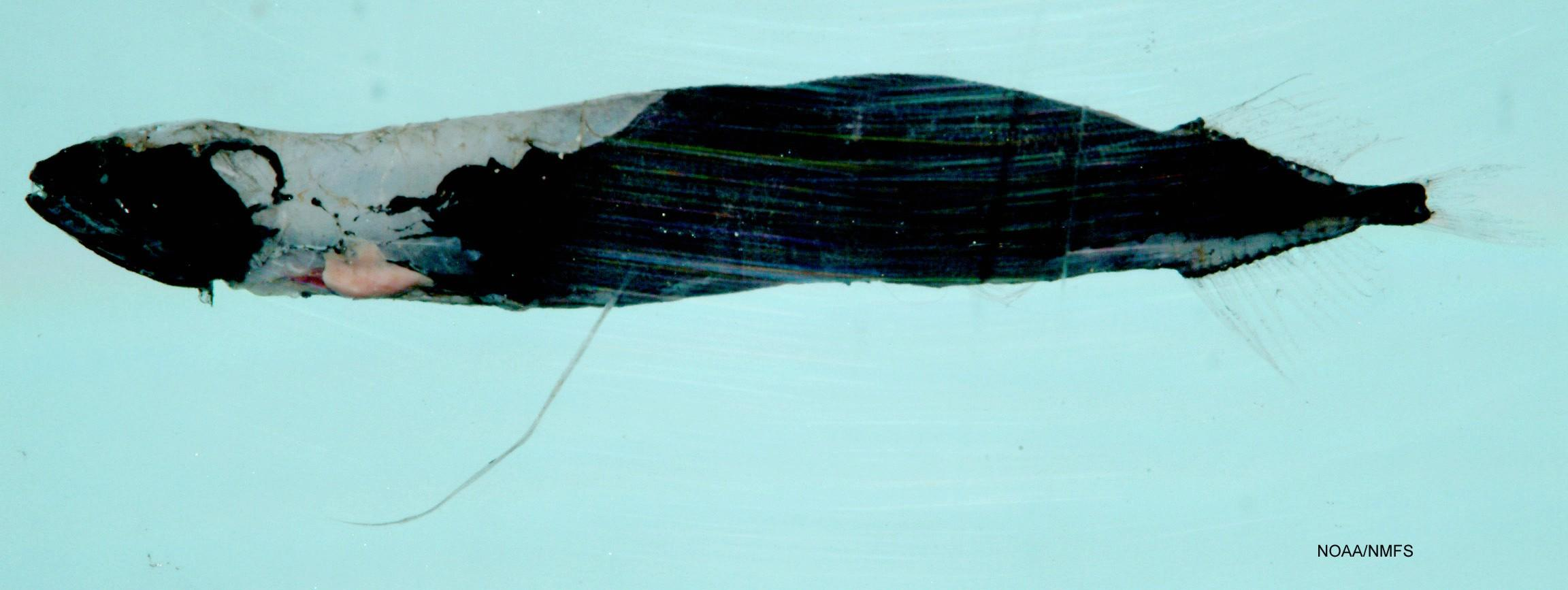 A species of the family of barbeled dragonfishes ( Bathophilus longipinnis ). Gulf of Mexico.